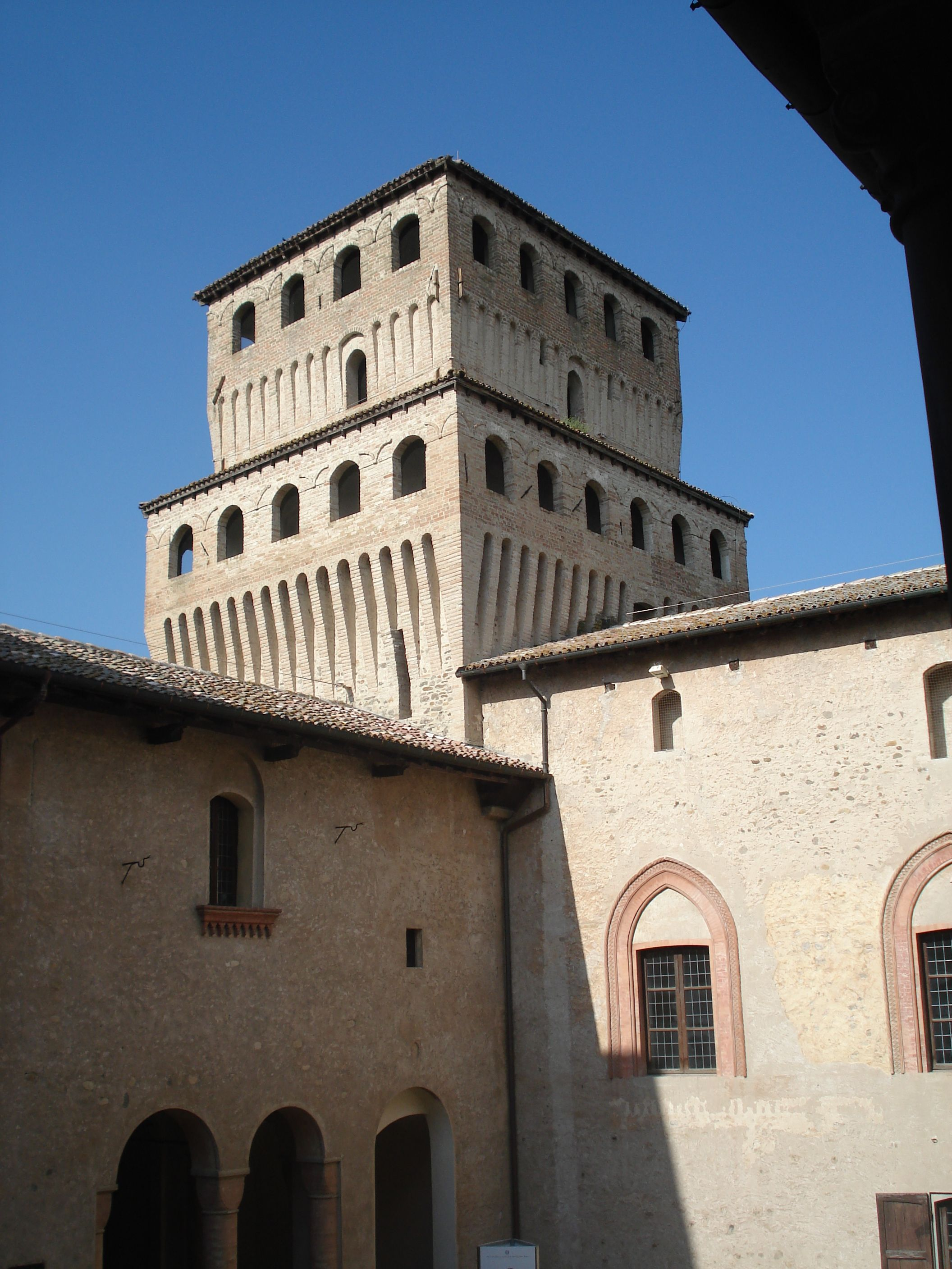 Torrechiara Castle This is a photo of a monument which is part of cultural heritage of Italy.